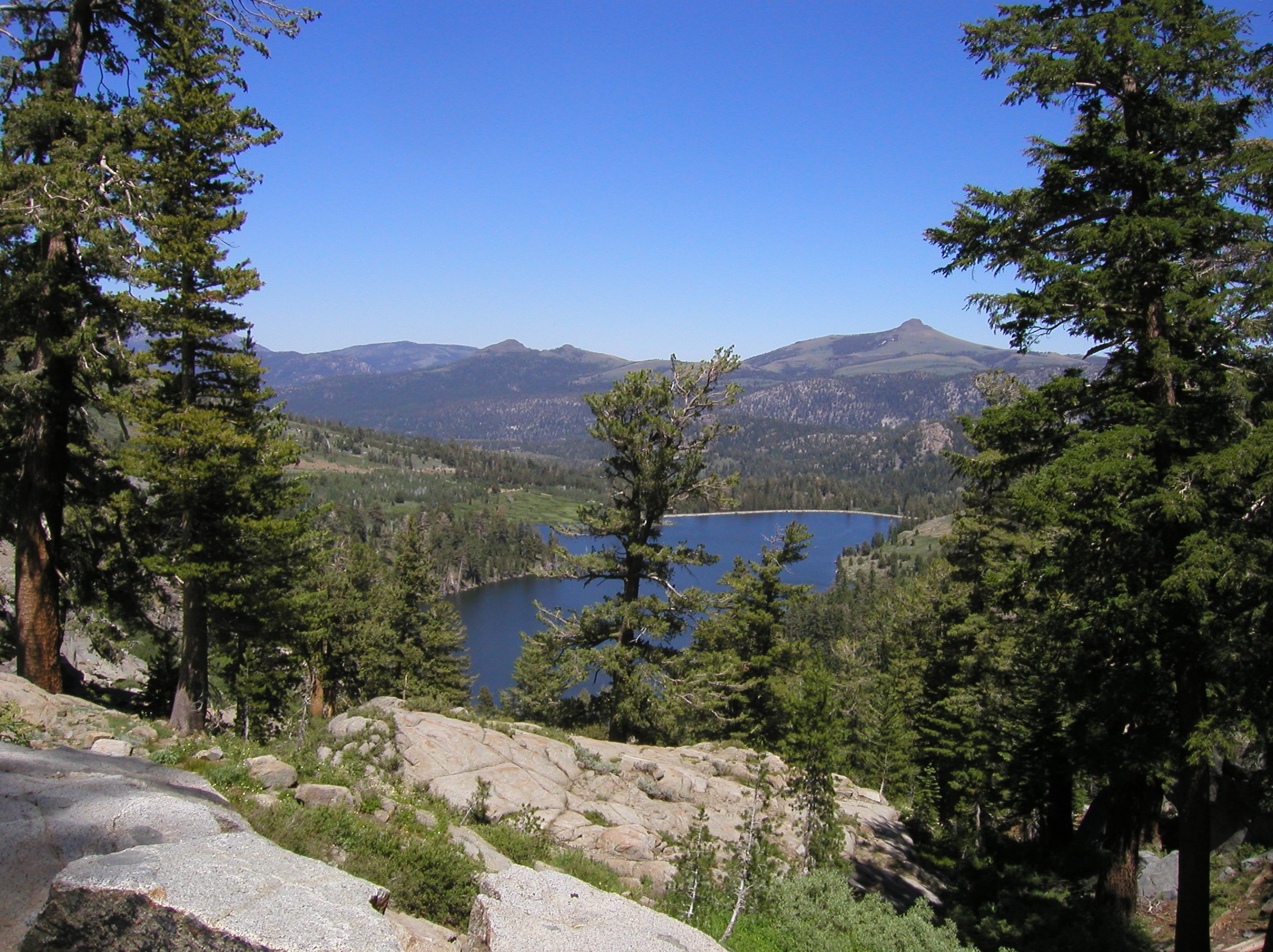 A view eastward from Carson Pass, overlooking Red Lake in the Sierra Nevada, in Alpine County, California.